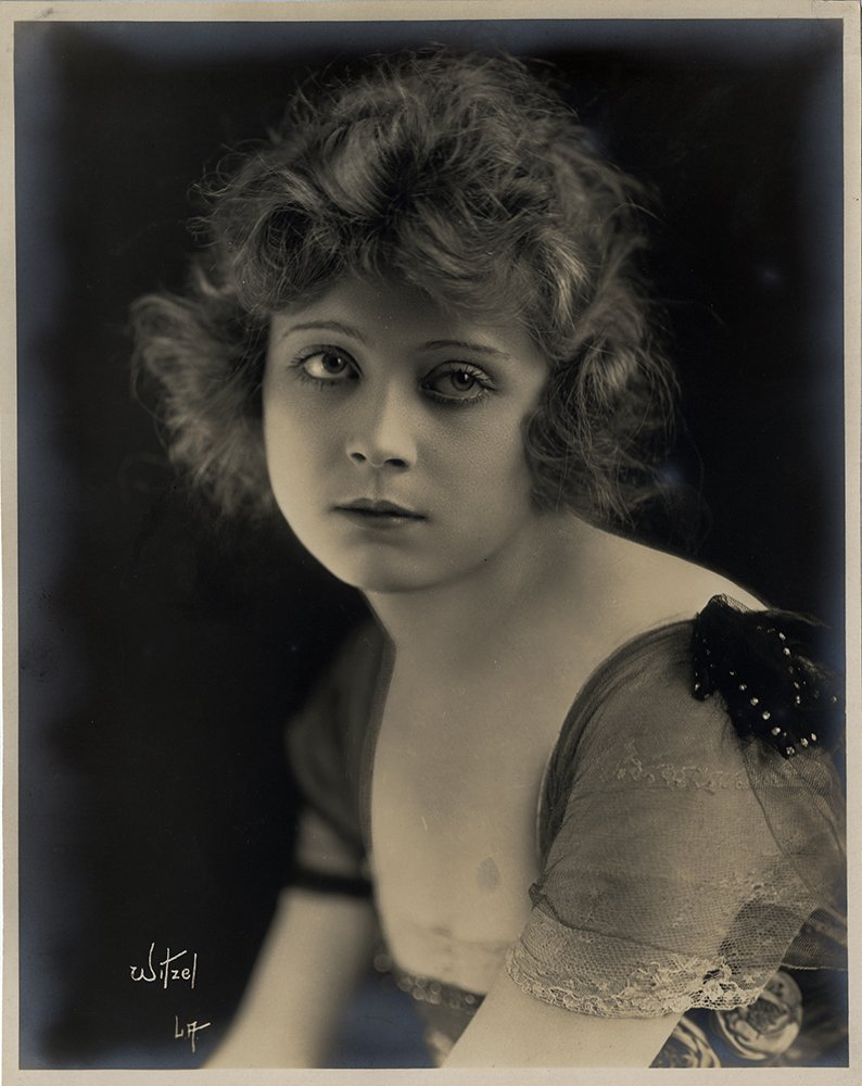 Portrait of American actress Jane Novak (1896–1990) by Albert Witzel.